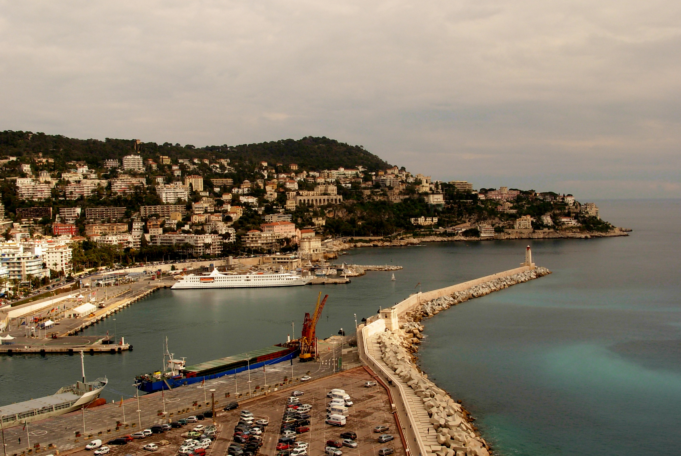 Port of Nice/Nicos uostas